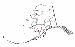 Adapted from Wikipedia's AK borough maps by Seth Ilys.